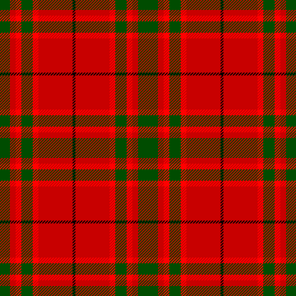 MacNab tartan, as published in the Vestiarium Scoticum. Modern thread count: G14 R4 Cr4 G8 Cr4 R24 Bk2.